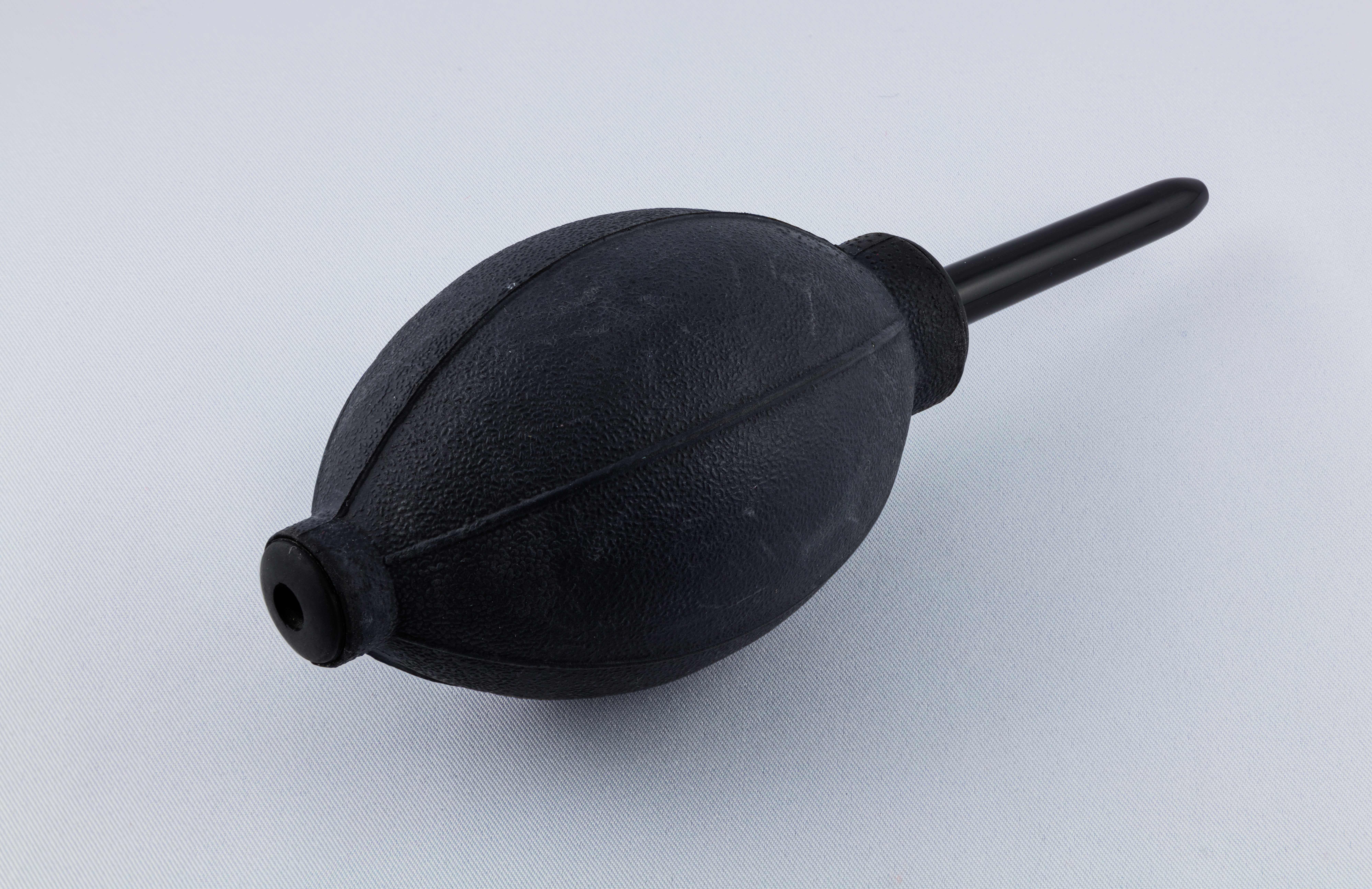 Air blower